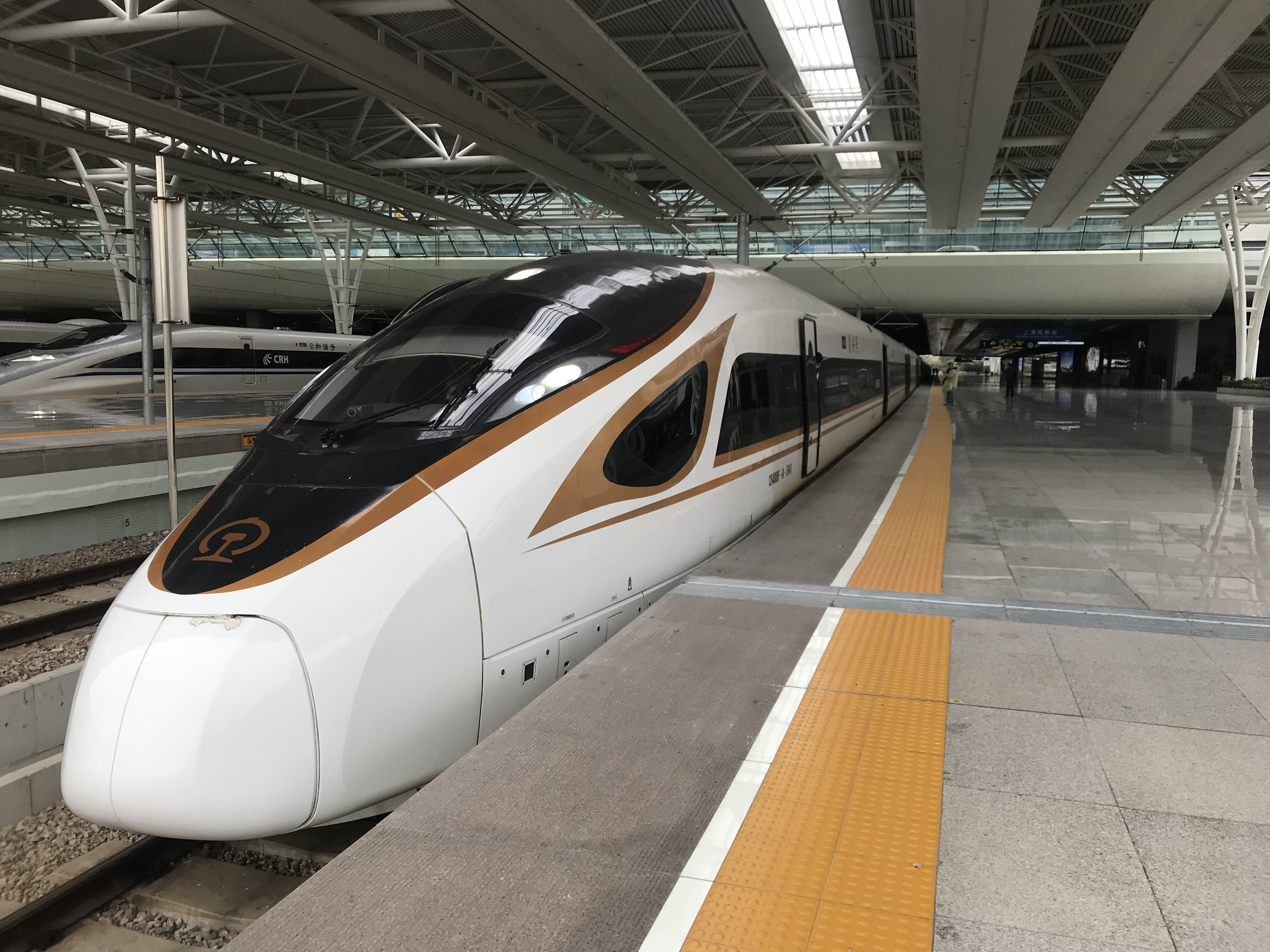 201812 CR400BF-A-5048 as G99 on the Platform 1 of Shanghai Hongqiao Station. Finally made it.